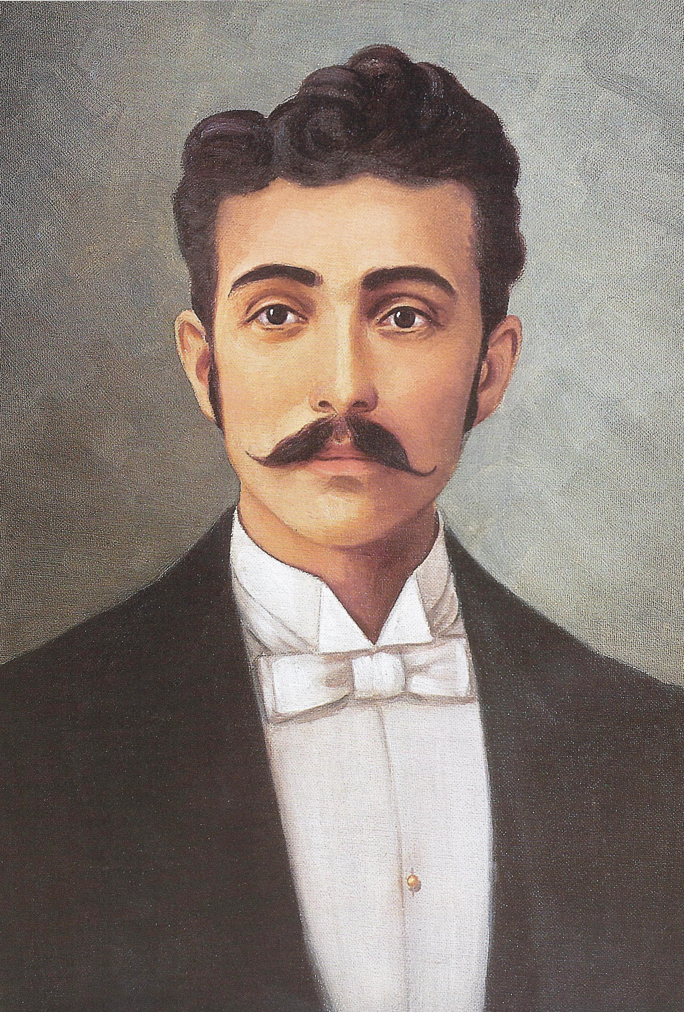 The general Tomas Regalado, President of El Salvador (1898-1903)